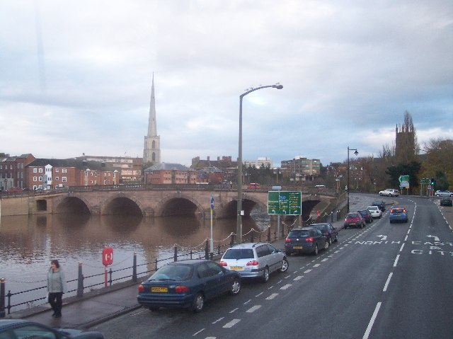 Worcester Road Bridge. Taken from the vantage point of the top deck of a double decker bus. Looking south south east. The bridge was built in 1781 and widened in 1932. St Andrews spire (or the Glover's Needle - remembering the glove making history of the area) soars above the city. The cathedral is partly obscured by trees on the right of the picture.